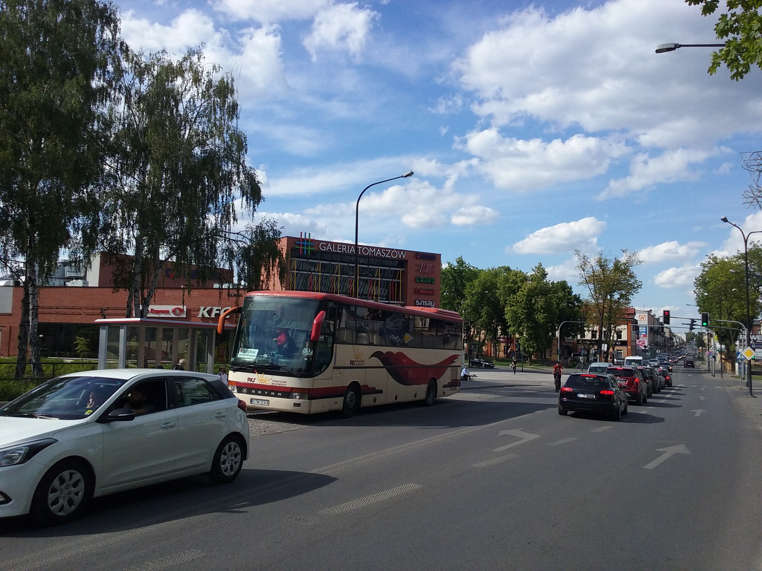 Coach of PKS Tomaszów Mazowiecki, Warszawska Street, June 2020